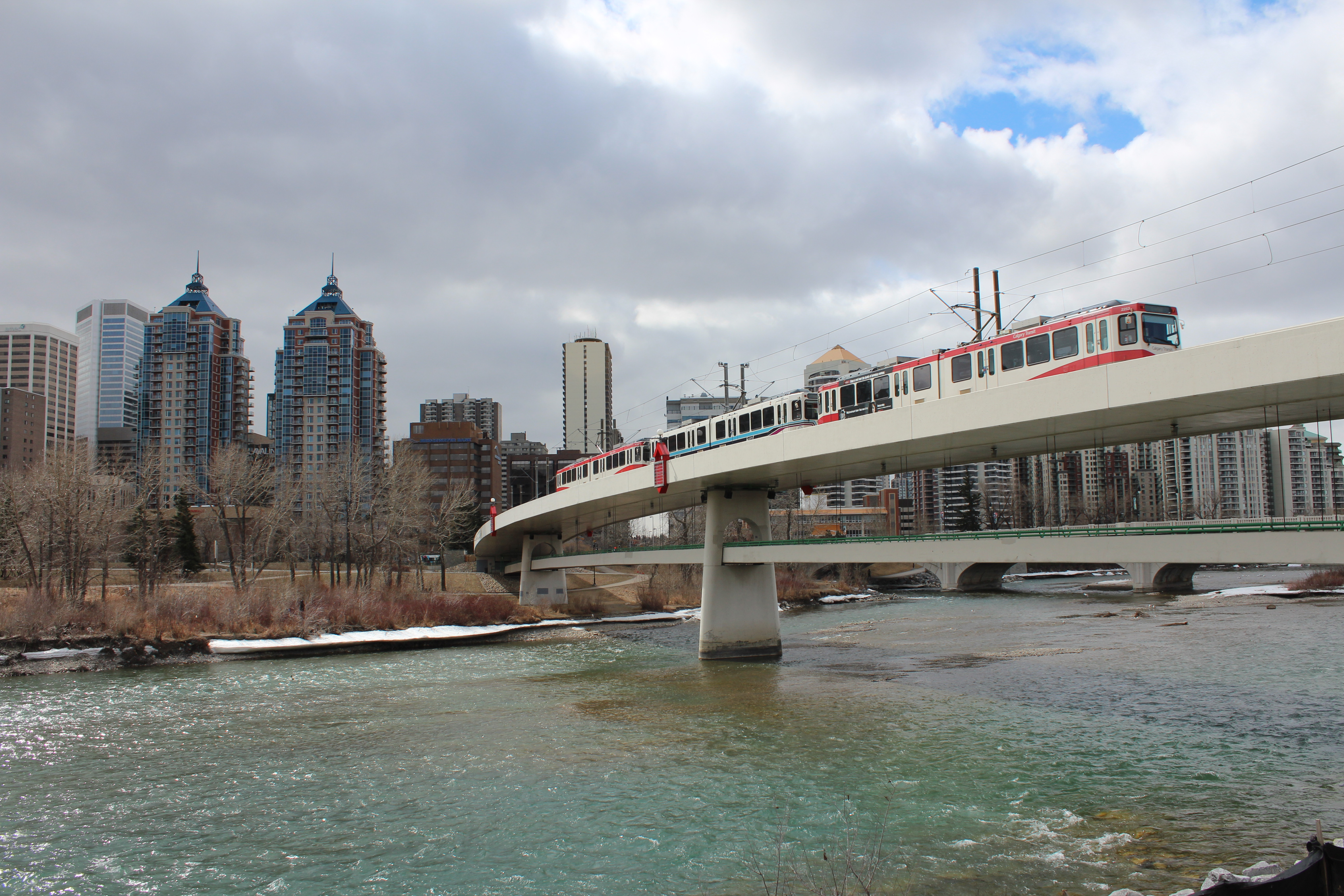 A three-car train on Calgary's C-Train LRT (Light Rail Transit) system, crossing the Bow River, northbound on the Northwest Line (201), with the West End of downtown in the background. This view is from the Bow River pathway north, next to Memorial Drive NW. All three cars in this train are the Siemens SD-160 model (with car 2253 leading), but the middle car is wearing an older paint scheme.